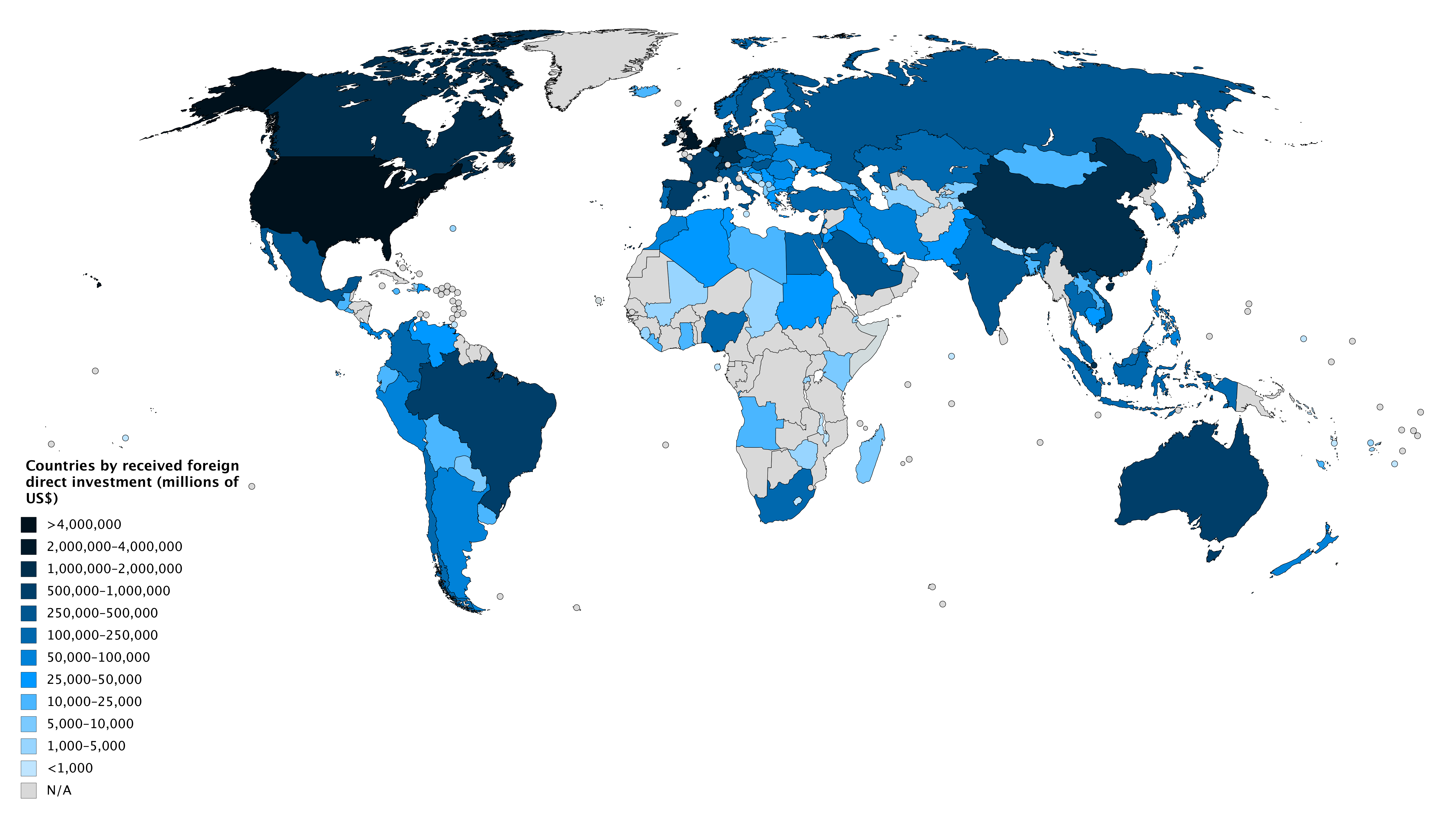 A choropleth map showing countries and territories of the world by received foreign direct investment (FDI), based on latest data from The World Factbook.